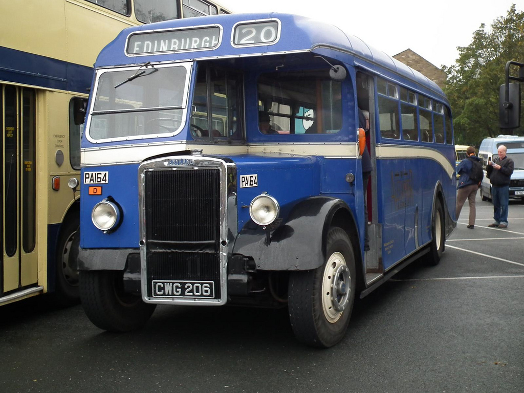 Yorkshire Dales Bus & Coach Running Day